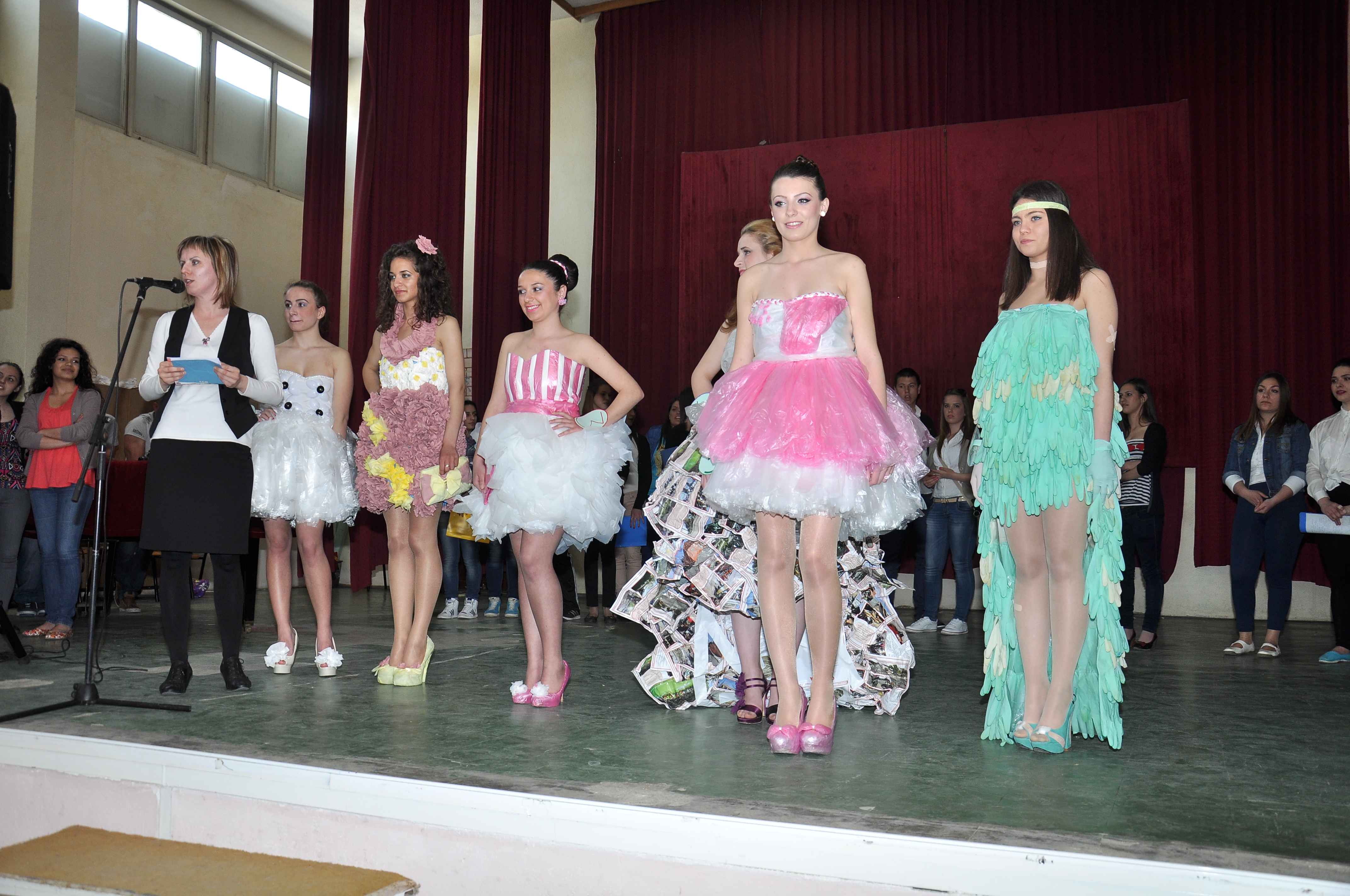 „Trash Fashion“ во СОУ Коста Сусинов - Радовиш